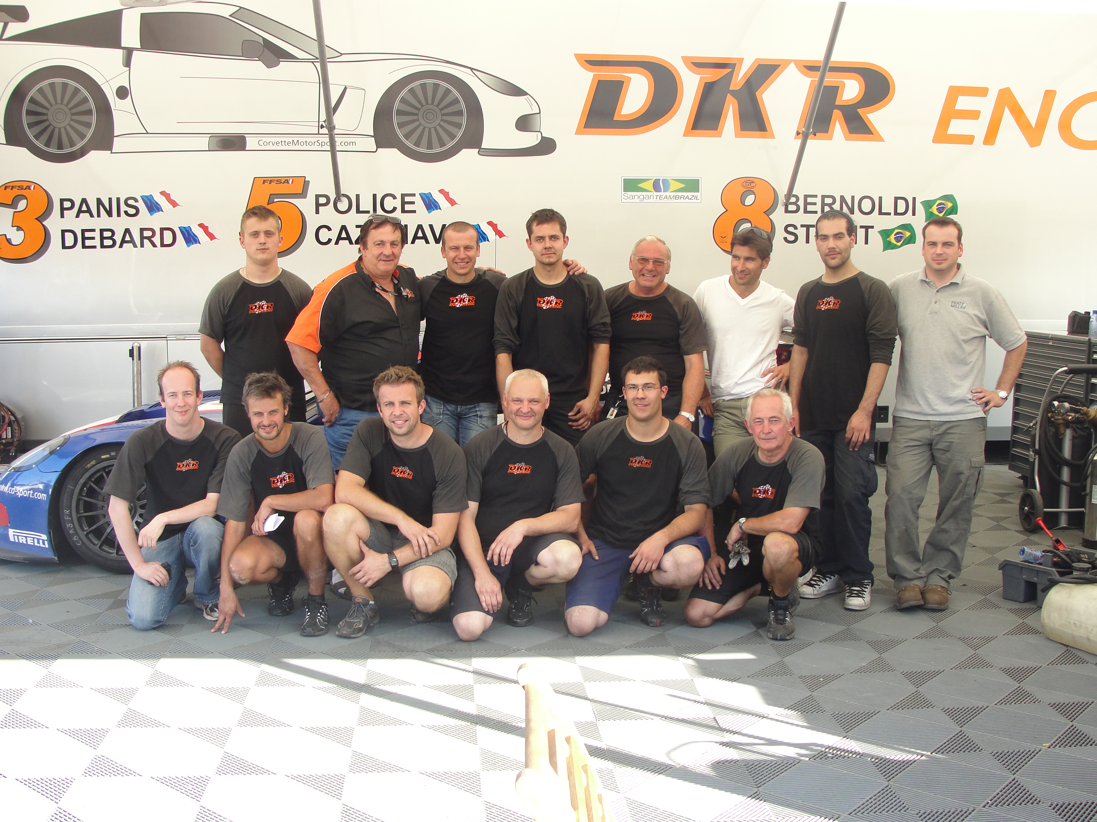 Team presentation